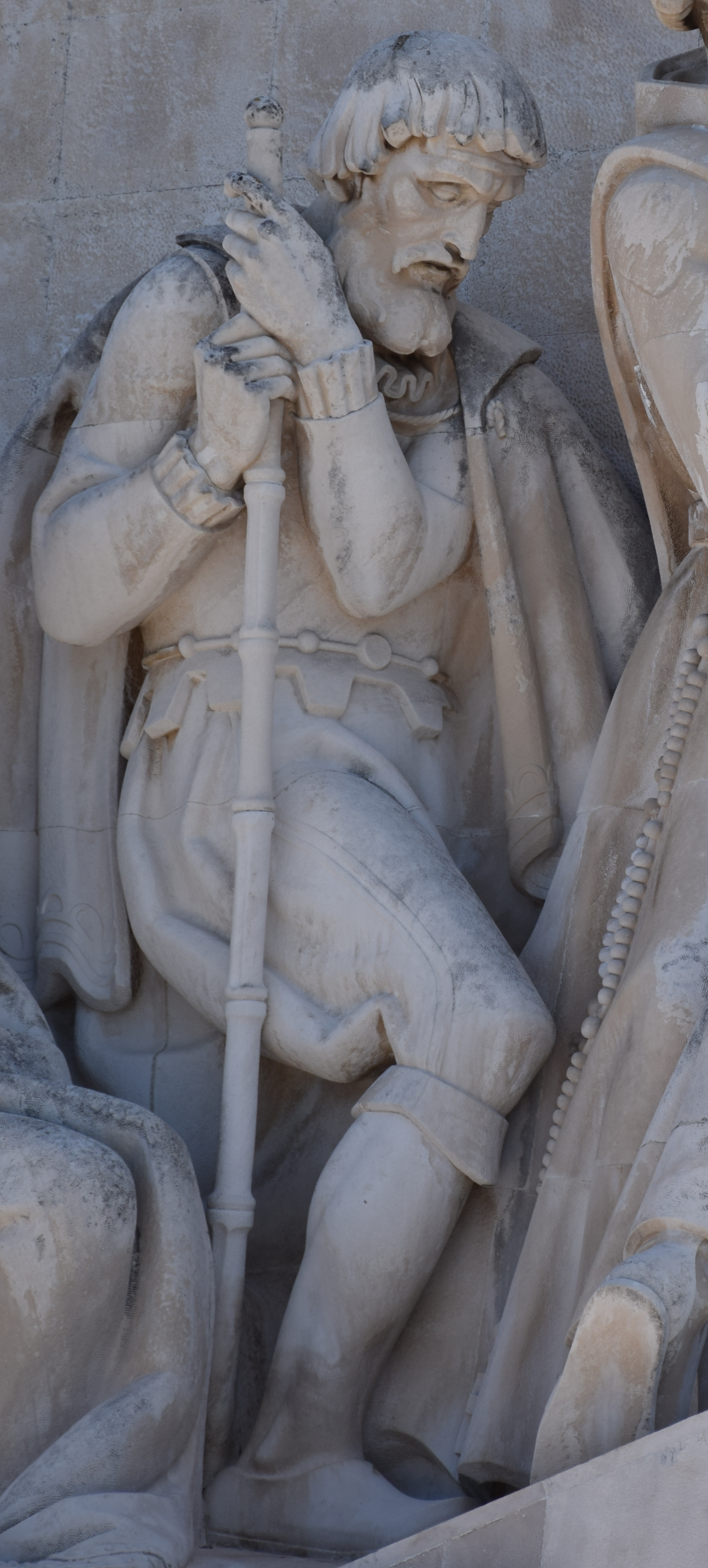 Effigy of Fernão Mendes Pinto (1509-1583), Portuguese explorer and writer, in the Padrão dos Descobrimentos (Monument to the Discoveries), in Lisbon, Portugal.